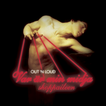 Cover of CD single "Var är min midja" released by Helsingin gaykuoro Out 'n loud ry – Helsingfors gaykör Out 'n loud rf